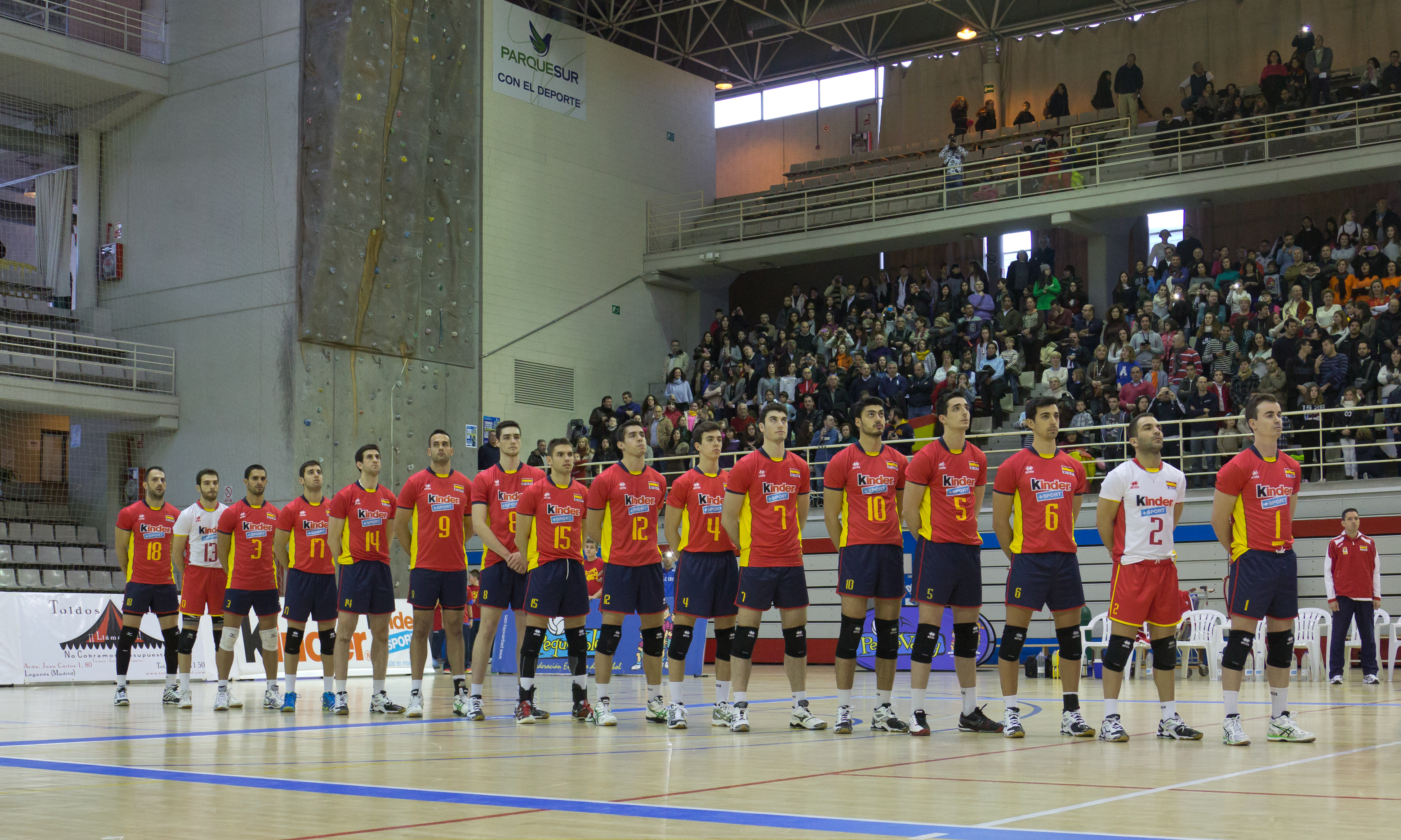 Spain men's national volleyball team in Leganés, Spain.